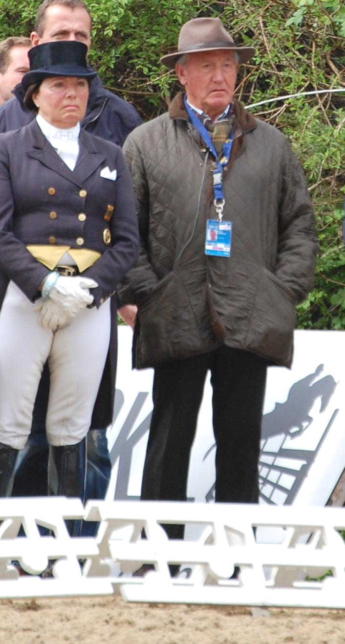 left: Bianca Kasselmann (German dressage rider); right: Klaus Balkenhol (dressage trainer and former dressage rider)